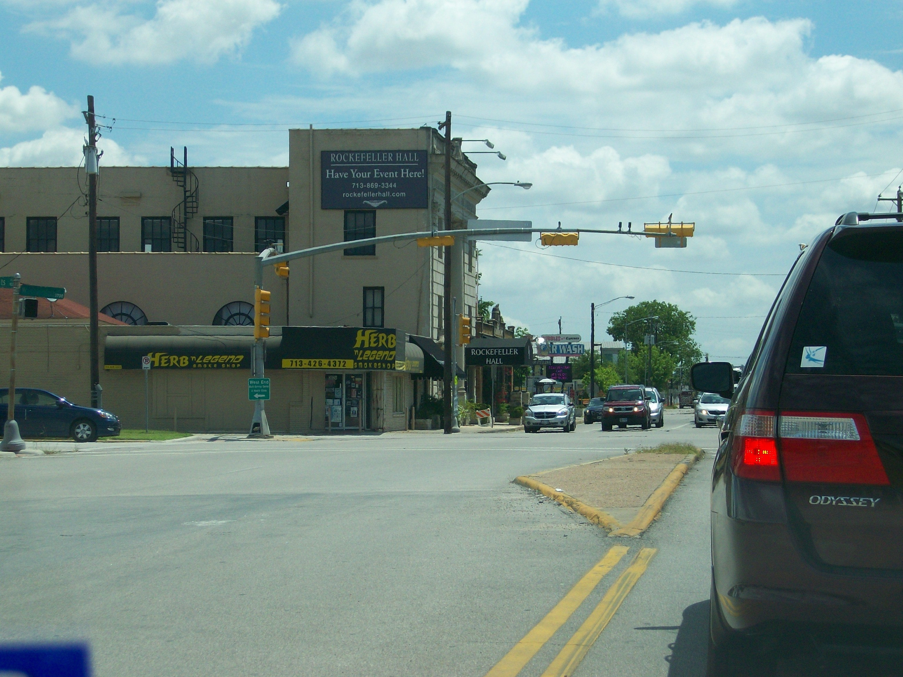 Washington Avenue (Houston, Texas)